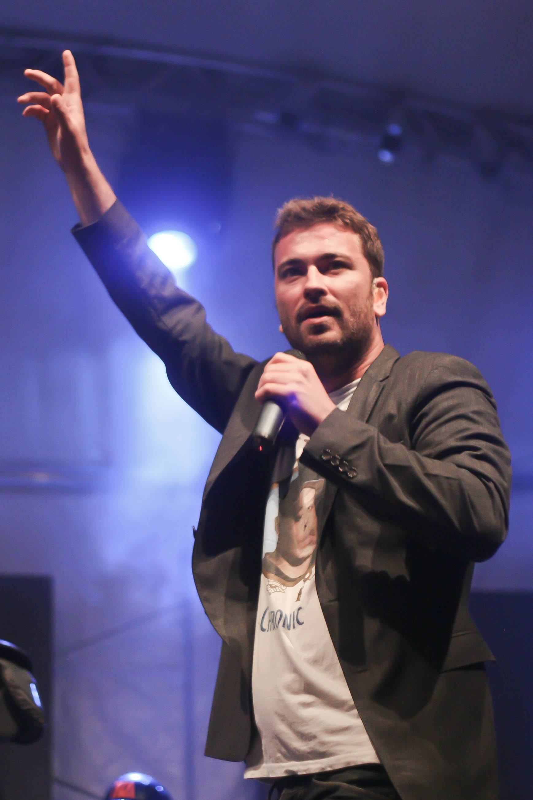 Marteria at Sonnenrot Festival (Eching/Germany)